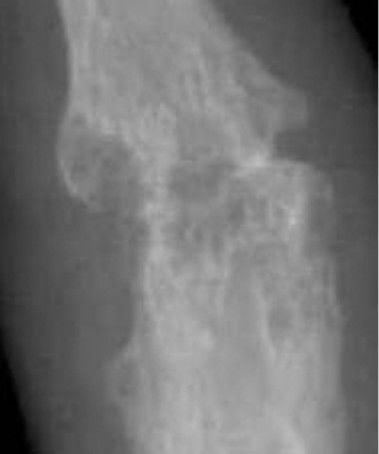 X-ray of right fourth proximal interphalangeal (PIP) joint with bone erosions by rheumatoid arthritis. Taken October 2002. Same joint is partially healed on a follow-up X-ray after treatment with conventional disease-modifying antirheumatic drugs(DMARDs) one year later: File:X-ray of right fourth PIP joint with partially healed bone erosions by rheumatoid arthritis.jpg